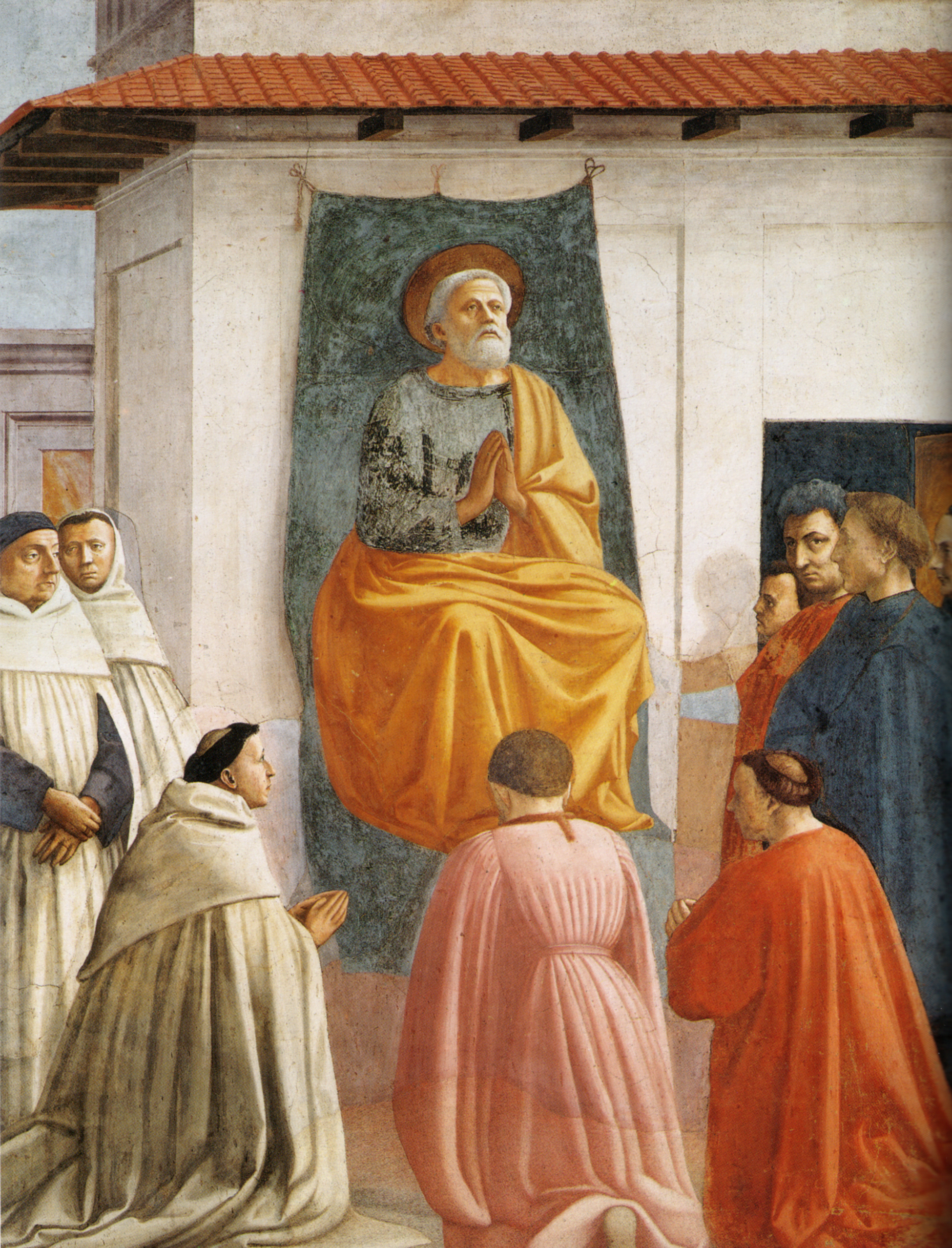 Raising of the Son of Teophilus and St. Peter Enthroned 20.jpg